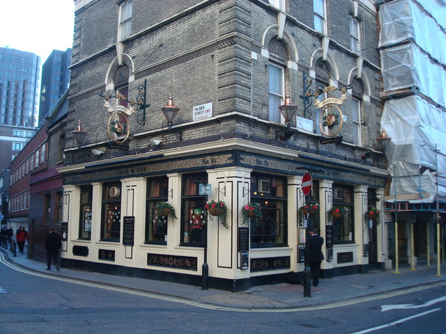 Adam and Eve Public House, Petty France, London SW1H